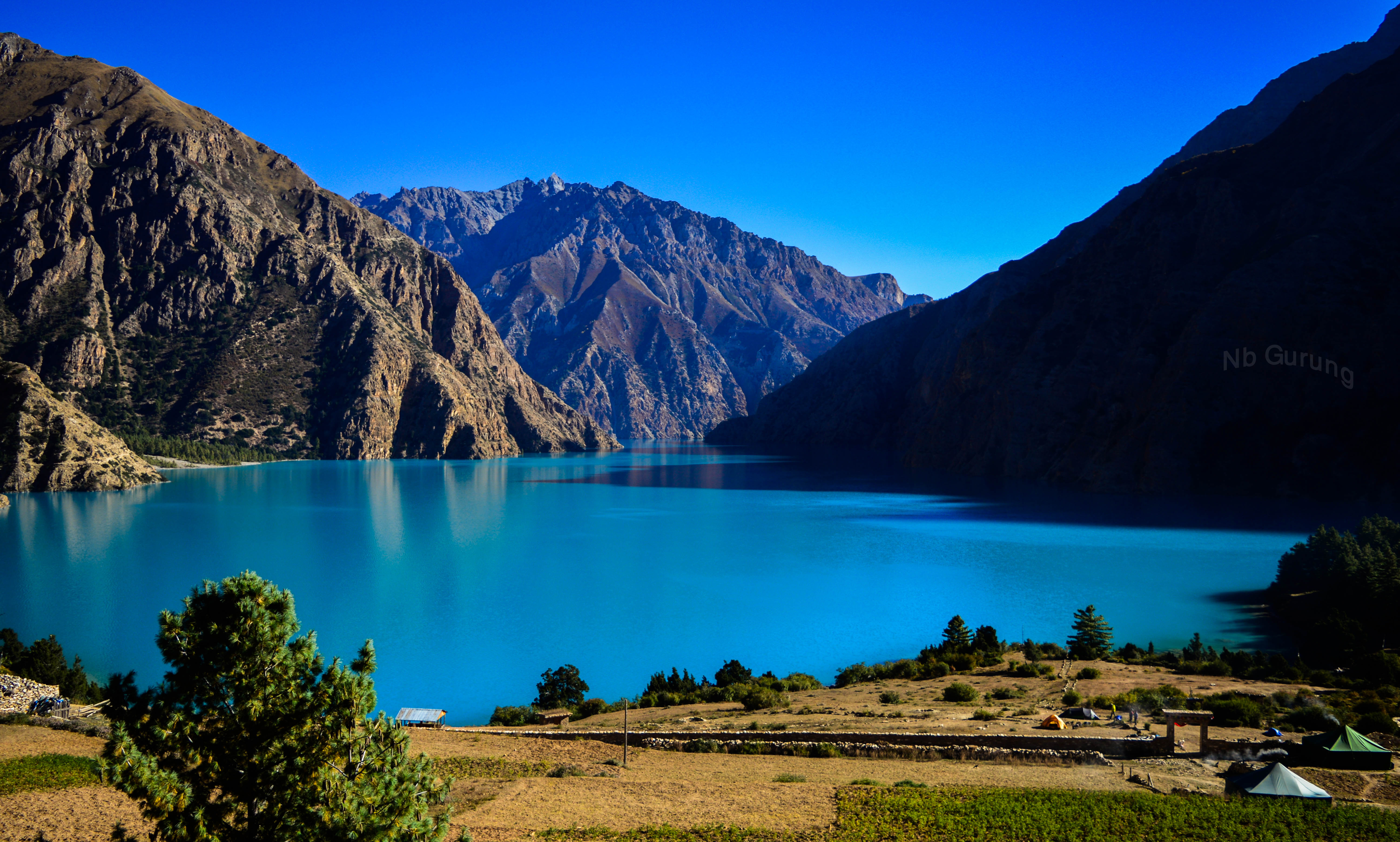 deepest lake in nepal shy-phoksundo lake